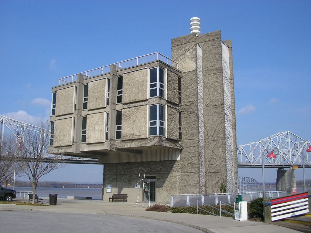 Waterfront Development Corporation headquarters in Louisville, Kentucky.